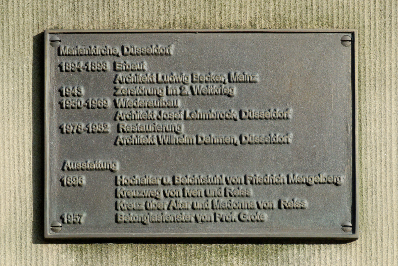 Board at St. Mariä Empfängnis in Düsseldorf-Stadtmitte, Germany